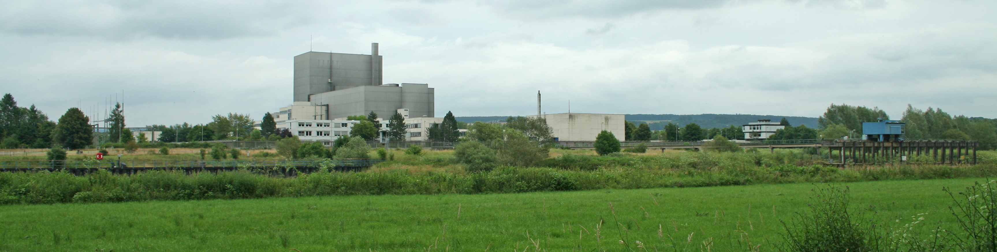 Nuclear Power Plant - Wuergassen - Germany